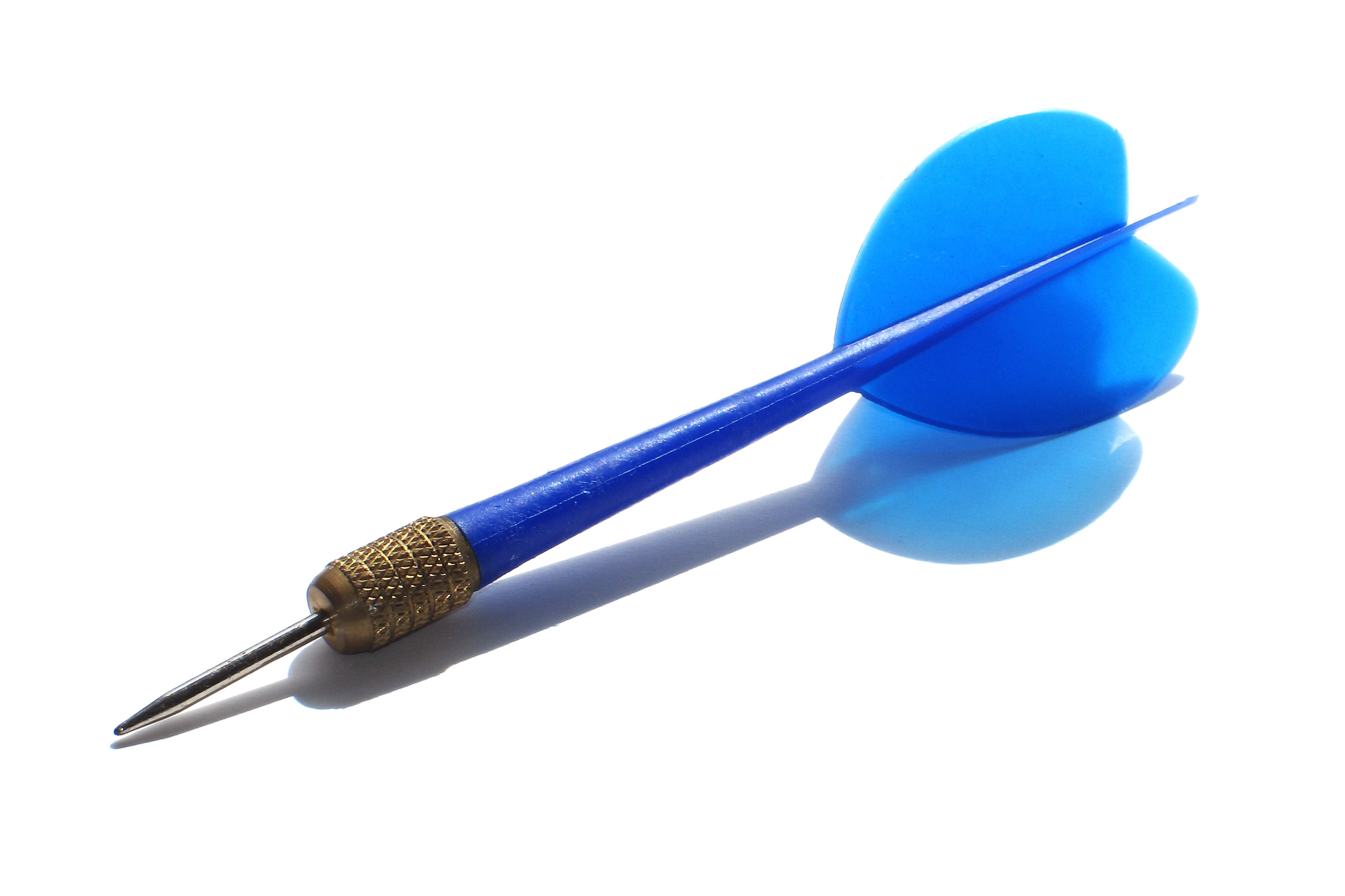 A blue plastic dart